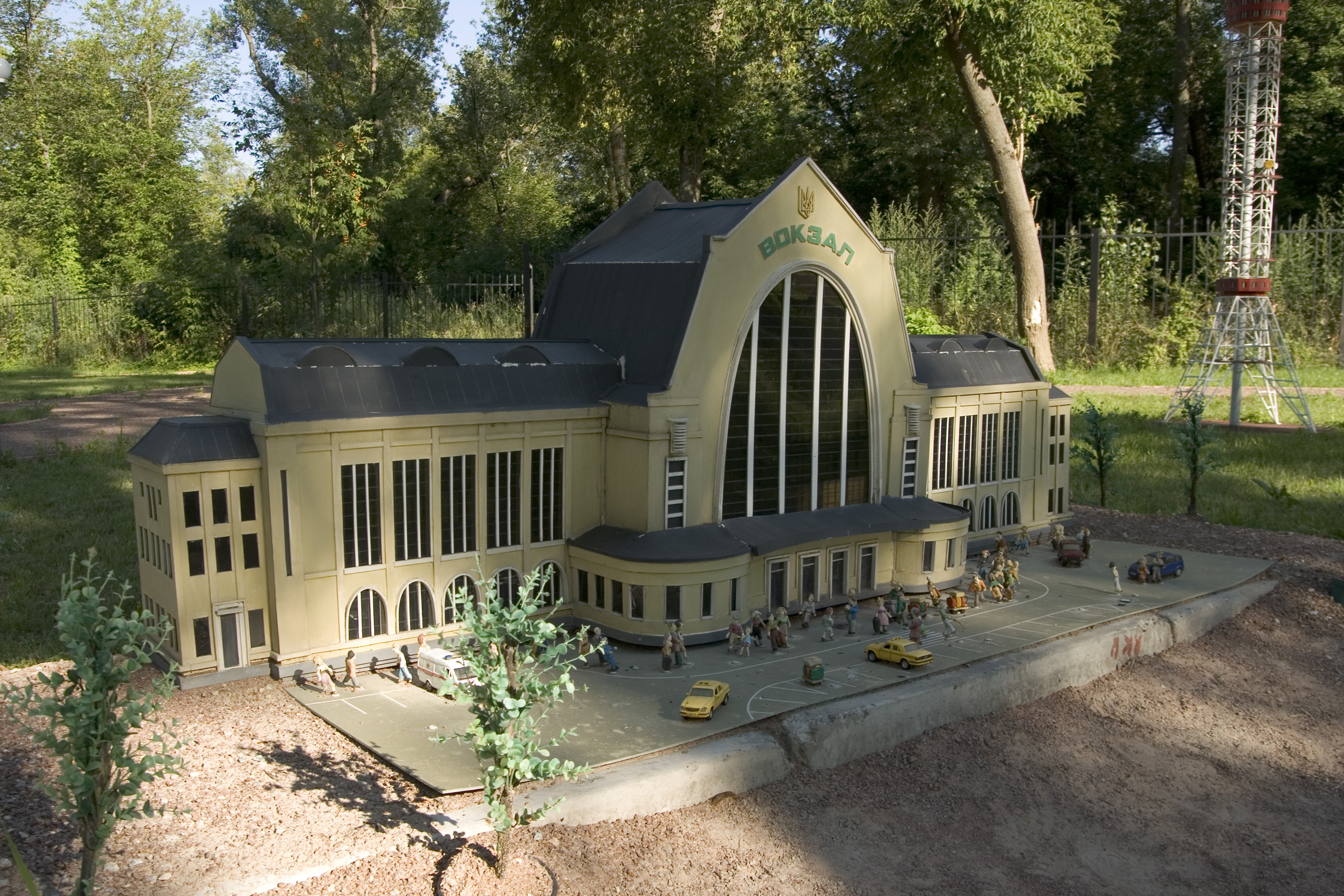 Mini Kiev exhibition at Hydropark